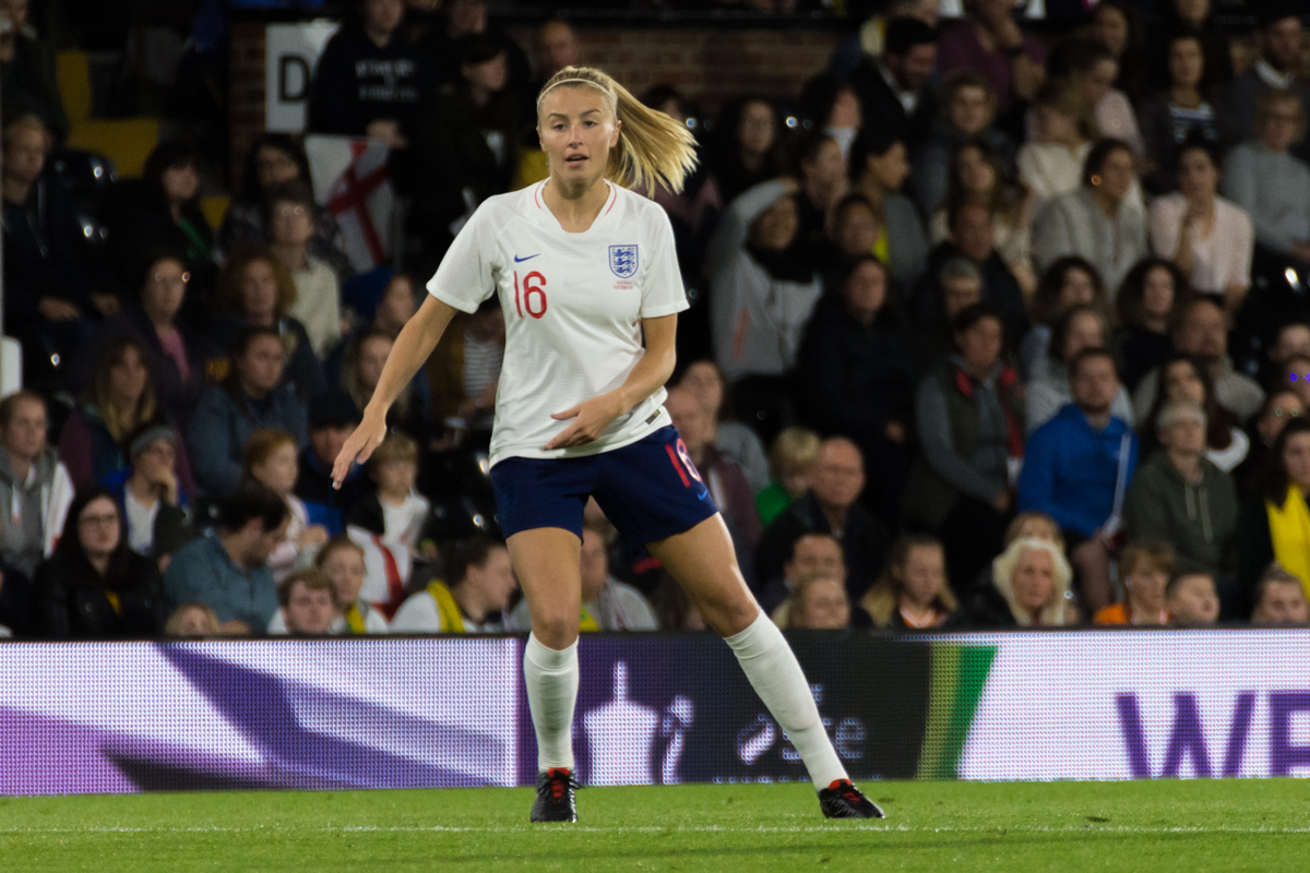 Leah Williamson vs Australia on 9 October 2018